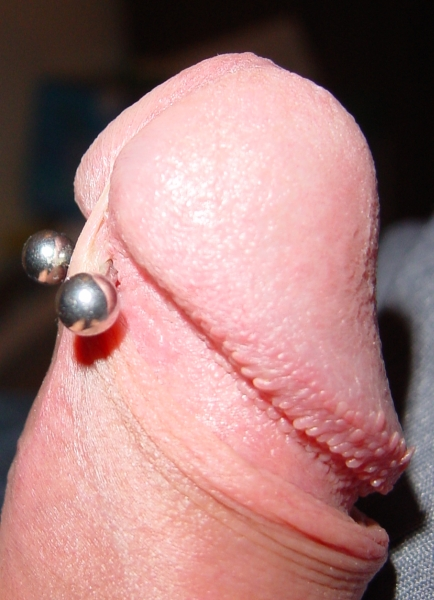 Frenulum Piercing. There are pearly penile papules on the glans, which are common on uncircumcised penises.